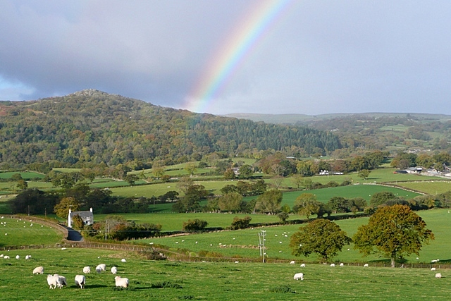 Farmland above Llangelynin As I left my friends' house near Conwy, travelling south, I saw this wonderful view framed by a rainbow. I have no idea where the rain was. In the background the wooded area of Parc Mawr leads to Craig Celynin in SH7473